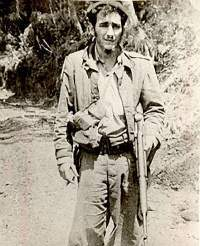 Ciro_Redondo